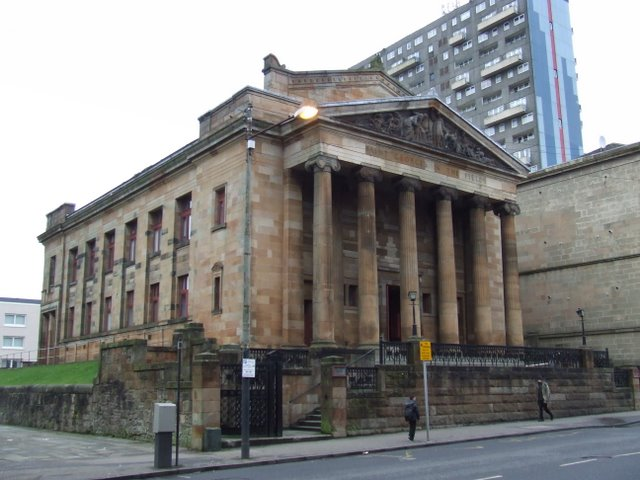 St George's In The Fields. Former church on St George's Road. See also 1177828 and 1177830 Follow this for information about the sculpture.